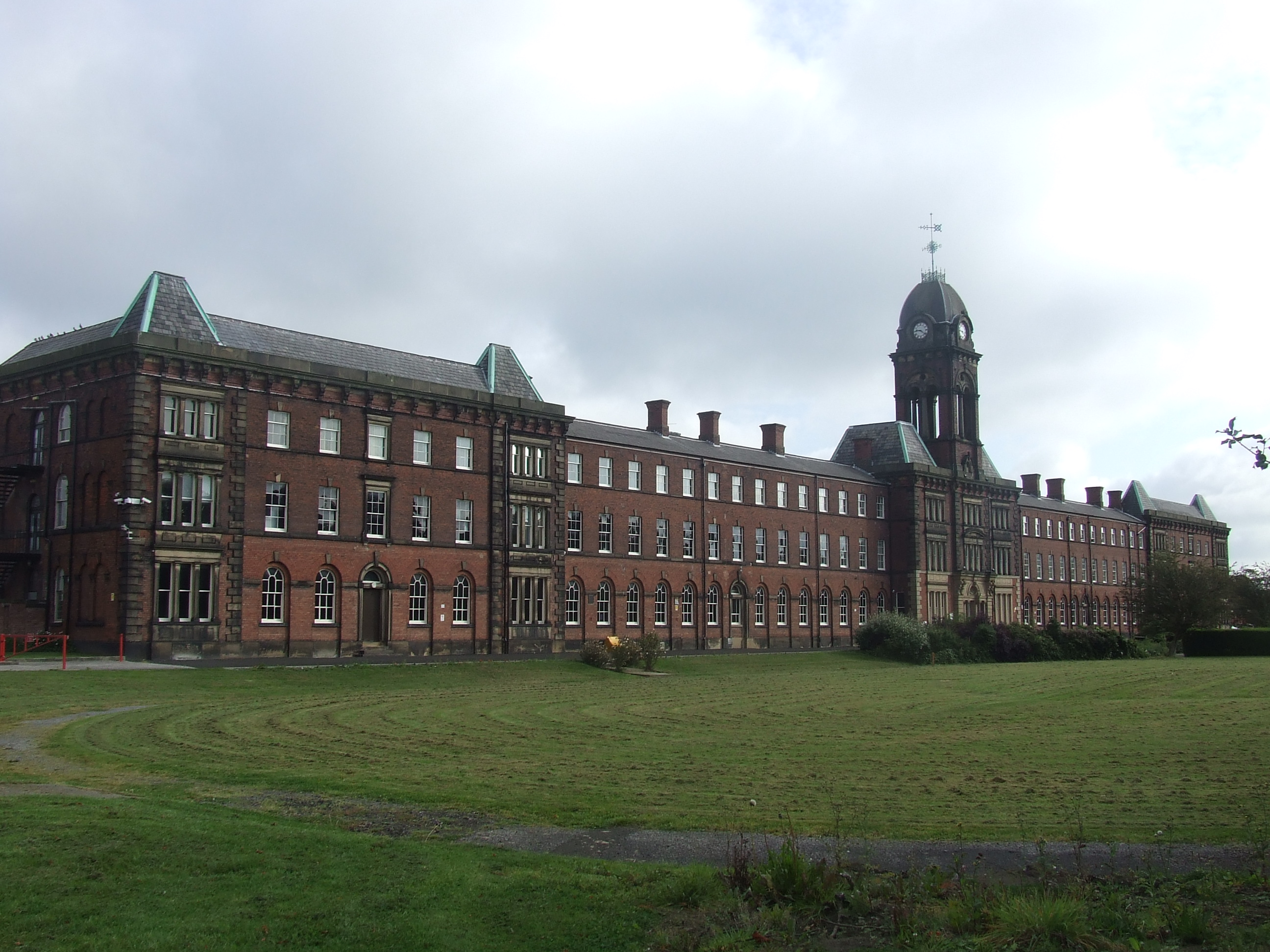 Former workhouse in Fulwood, Preston This was built as Fulwood Workhouse. It is now Preston Business Centre, part of the University of Central Lancashire, acting as a specialist rehabilitation mobility centre.